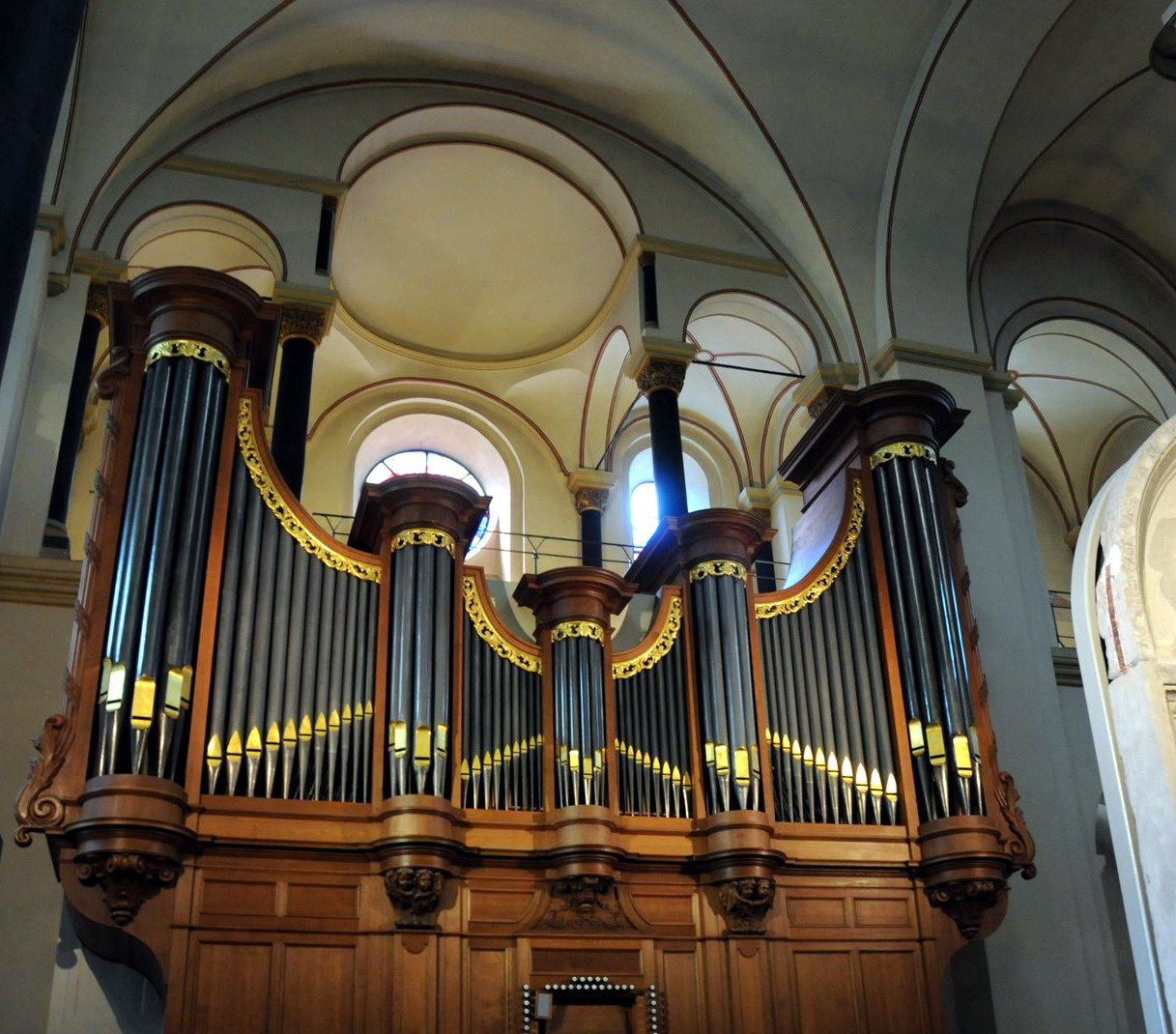 The organ in the westwork of the Basilica of Saint Servatius, Maastricht, the Netherlands.